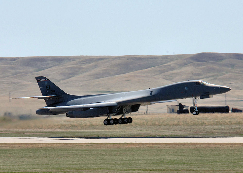 A B-1 Lancer from the 28th Bomb Wing practices "touch and go" procedures at Ellsworth Air Force Base, S.D., on Thursday, April 13, 2006. (U.S. Air Force photo/Airman Angela Ruiz)